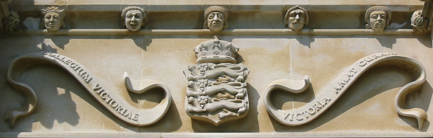 Victoria College, Jersey - Victoria Amat Curam